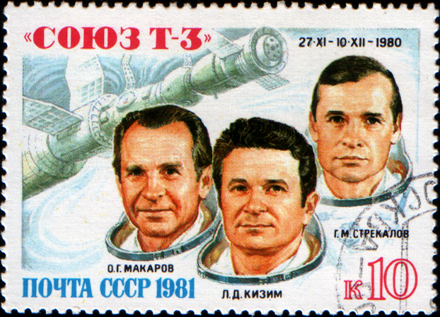 USSR stamp, 1981, Space Flight of “Soyuz T-3”. Date of issue: 20th March 1981. Designer: G. Komlev. Michel catalogue number: 5051. 10 K. multicoloured. Portraits of cosmonauts L. D. Kizim, G. M. Strekalov, S. G. Makarov on the background of space complex.